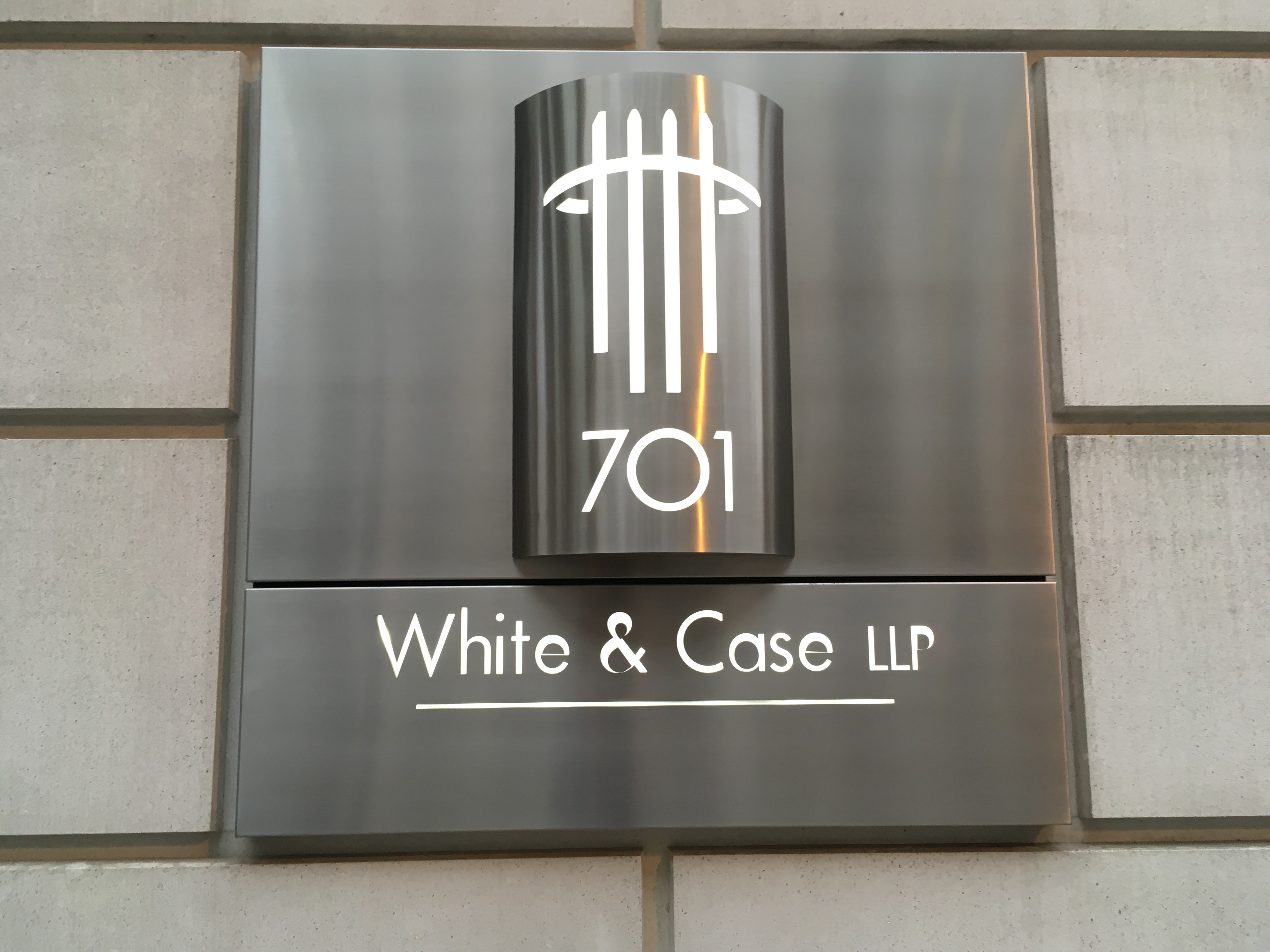 Plaque for White & Chase LLC